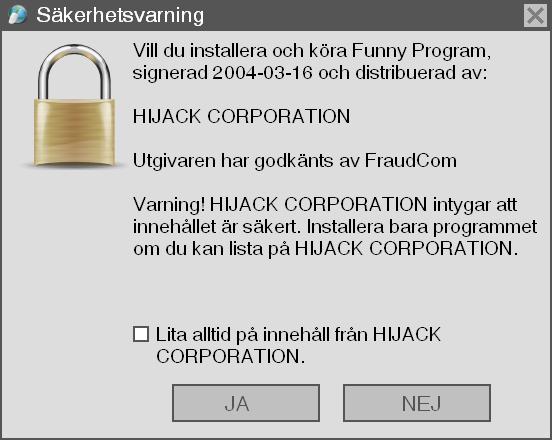 Made for illustrating Modemkapning, featuring a Security Warning on a Hollywood Operating System. The companies featured on the image are fictous (any similarity to actual companies, living or dead, is completely unintentional). Author: Made by Väsk using Paint. Image:Padlock aj ashton 01.png and Image:Web-browser.png, used in the image, are from Open Clip Art Library